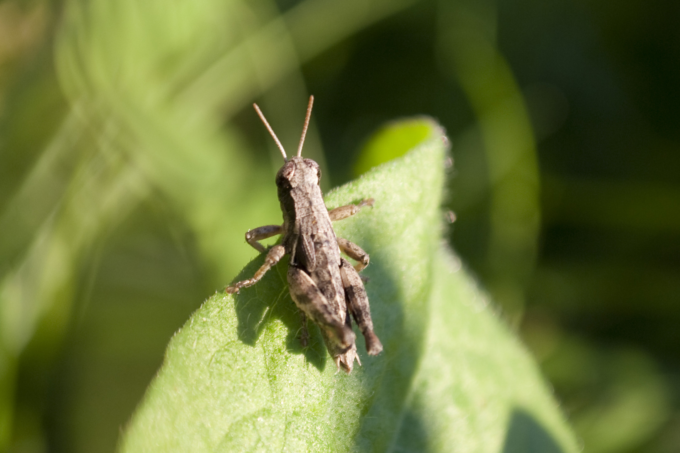 (unknown) Tetrix